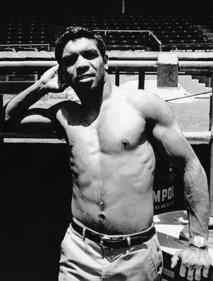 Lionel Rose. White City Tennis Stadium, Sydney, Australia.